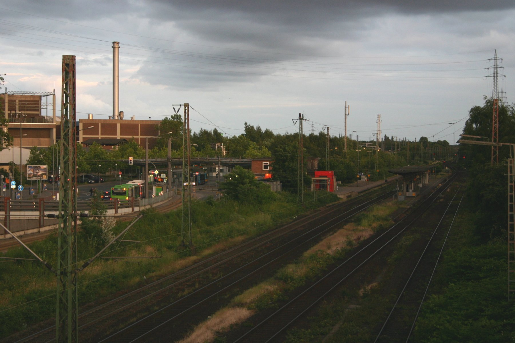 Station Oberhausen-Sterkrade with bus terminal and local power plant